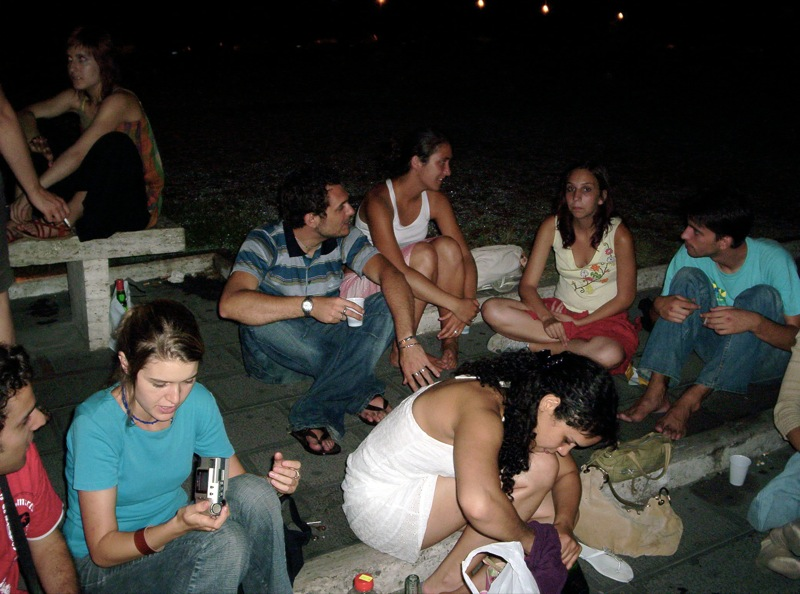 By G. Prestige Botellón at San Giovanni Rome, 18 July 2006.